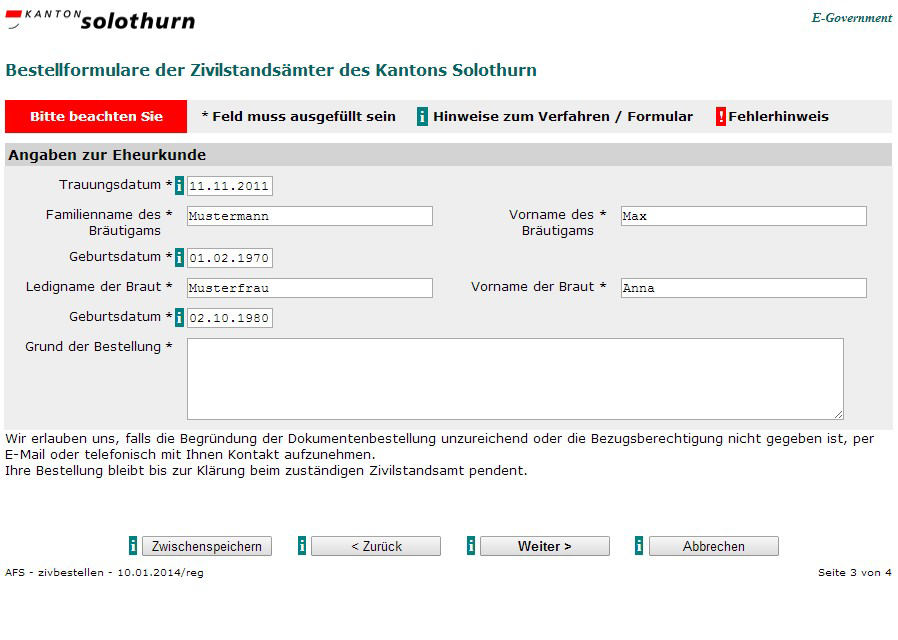 Webform of the city of Solothurn (Switzerland): marriage certificate